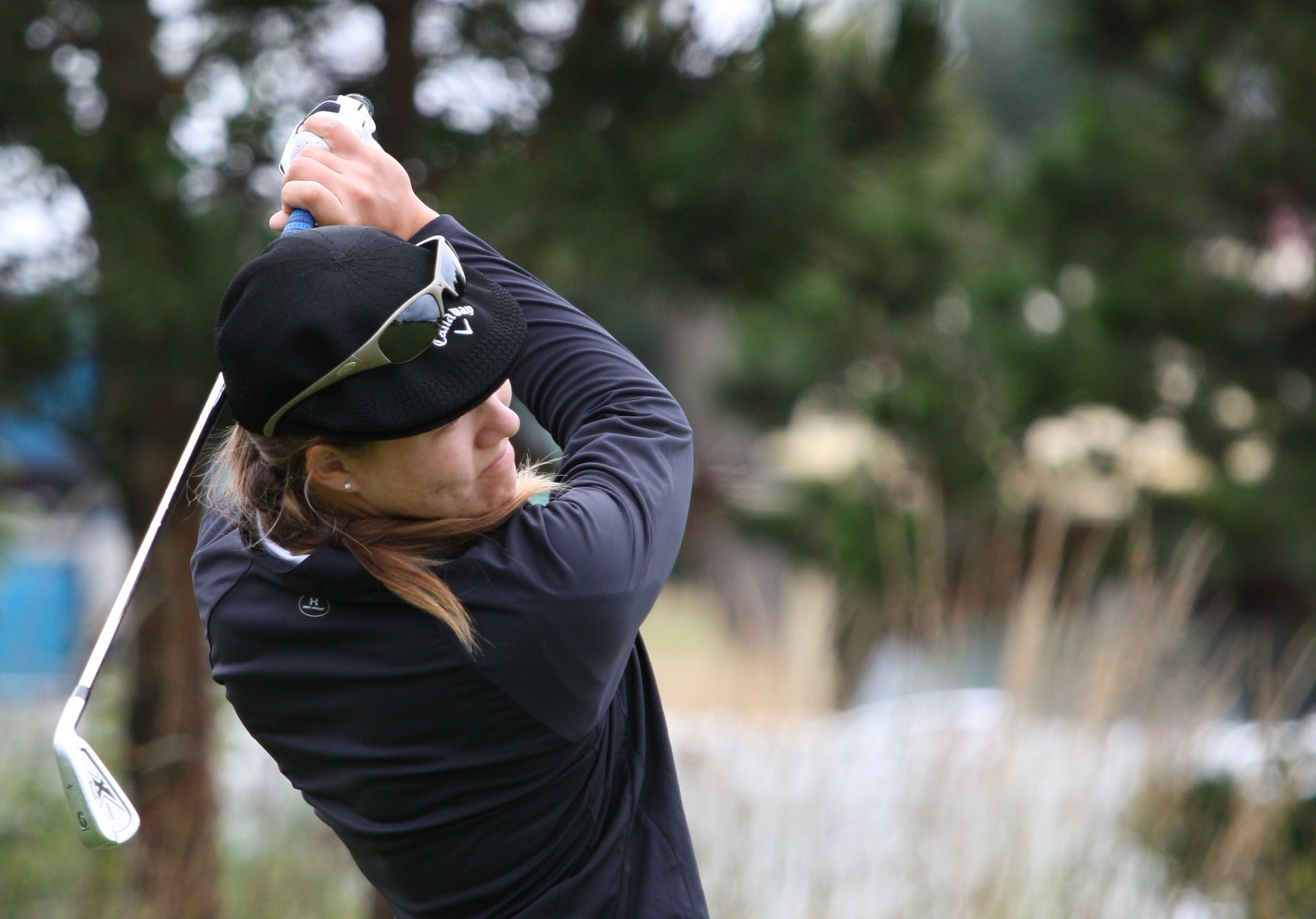 LYTHAM ST ANNES, UNITED KINGDOM - JULY 29: Vicky Hurst of USA tees off on the 12th hole during third practice round before 2009 Ricoh Women's British Open held at Royal Lytham & St Annes on July 29, 2009 in Lytham St Annes, England. (Photo by Wojciech Migda)